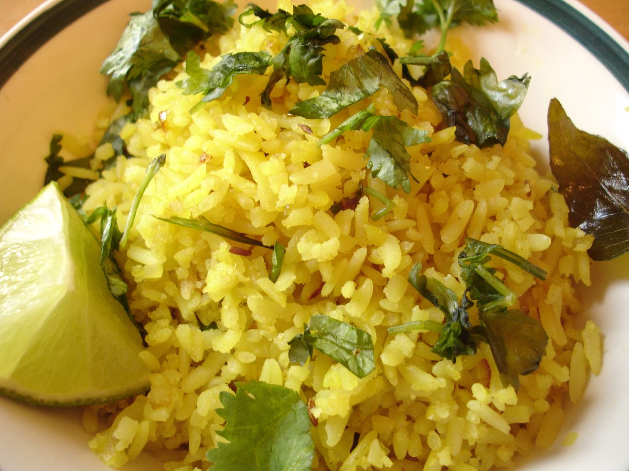 Poha is a very popular breakfast dish in the Indian states of Maharashtra and Gujarat. Ingredients 200g medium poha (flattened rice) this would be available only in an Indian store 1/2 medium size onion 1/4 tsp haldi (turmeric powder) pinch of hing (asafotedia) 1 tsp jeera (cumin seeds) 1 sprig kadi patta (curry leaves) 2 green chilies 2 tbsp oil 2 twigs of cilantro (Coriander) salt to taste Instructions 1. Moisten the poha with cold water by putting in a bowl and holding under a slow running tap. Mix the poha by hand. Drain excess water and keep aside (take care not to soak too long or the poha would turn pasty) 2. Chop the onions & chilies finely 3. Heat the oil in a fry pan till medium hot 4. Add the cumin seeds and let them crackle for a few seconds 5. Add the turmeric powder and asafotedia and fry for a few seconds (take care not to burn the turmeric) 6. Add the curry leaves and green chillies and fry for a few seconds 7. Add the chopped onion and lower the heat 8. Cover and cook for 2 minutes. The onions should turn soft but not brown 9. The poha that was kept aside should have absorbed the excess moisture by now Mix the poha by hand so that the flakes do not stick together and add to the fry pan 11. Add salt to taste and Stir the contents of the fry pay so that the yellow color of the turmeric is spread evenly on the poha 12. Cover and cook for 5 min on low heat. Do not uncover in this time. The poha must cook in the steam. 13. Stir and cook for another 1 minute uncovered 14. Serve in a bowl garnished with chopped coriander leaves & a twist of lime.